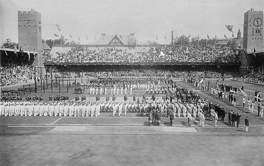 Opening ceremony at the 5th Olympic Games held in Stockholm